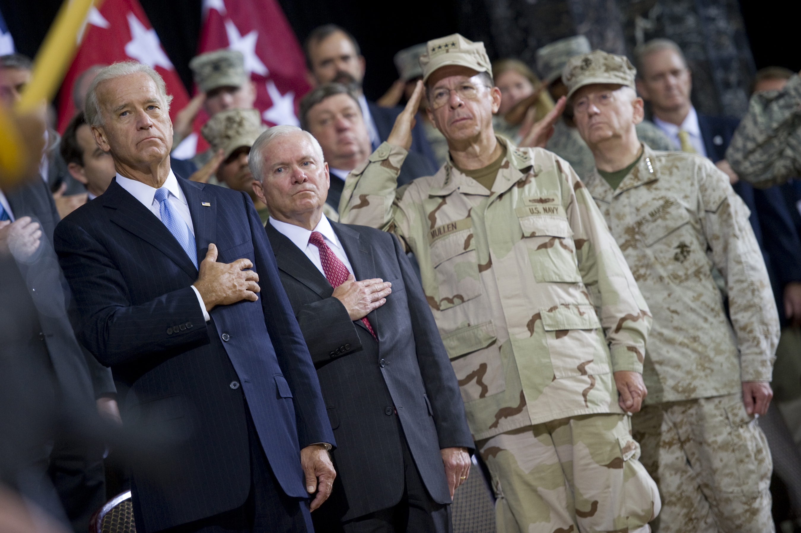 From left, Vice President Joe Biden, Secretary of Defense Robert M. Gates, Chairman of the Joint Chiefs of Staff Navy Adm. Mike Mullen and U.S. Marine Corps Gen. Gen. James Mattis, the commander of U.S. Central Command, salute as the colors are presented during the change of command ceremony for U.S. Forces-Iraq in Baghdad, Iraq, Sept. 1, 2010. Army Gen. Lloyd J. Austin III relieved Army Gen. Raymond T. Odierno of command of the remaining forces in Iraq. The ceremony marks the end of Operation Iraqi Freedom and the start of Operation New Dawn, during which U.S. forces move from combat operations to stability operations.